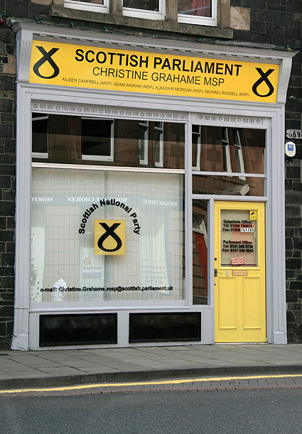 The office of Christine Grahame, the Scottish National Party MSP for South of Scotland, in Galashiels, located in Bank Street.